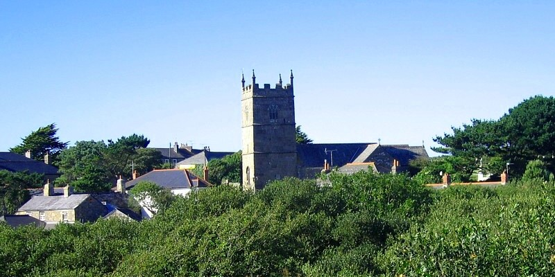 Zennor - Cornwall - UK